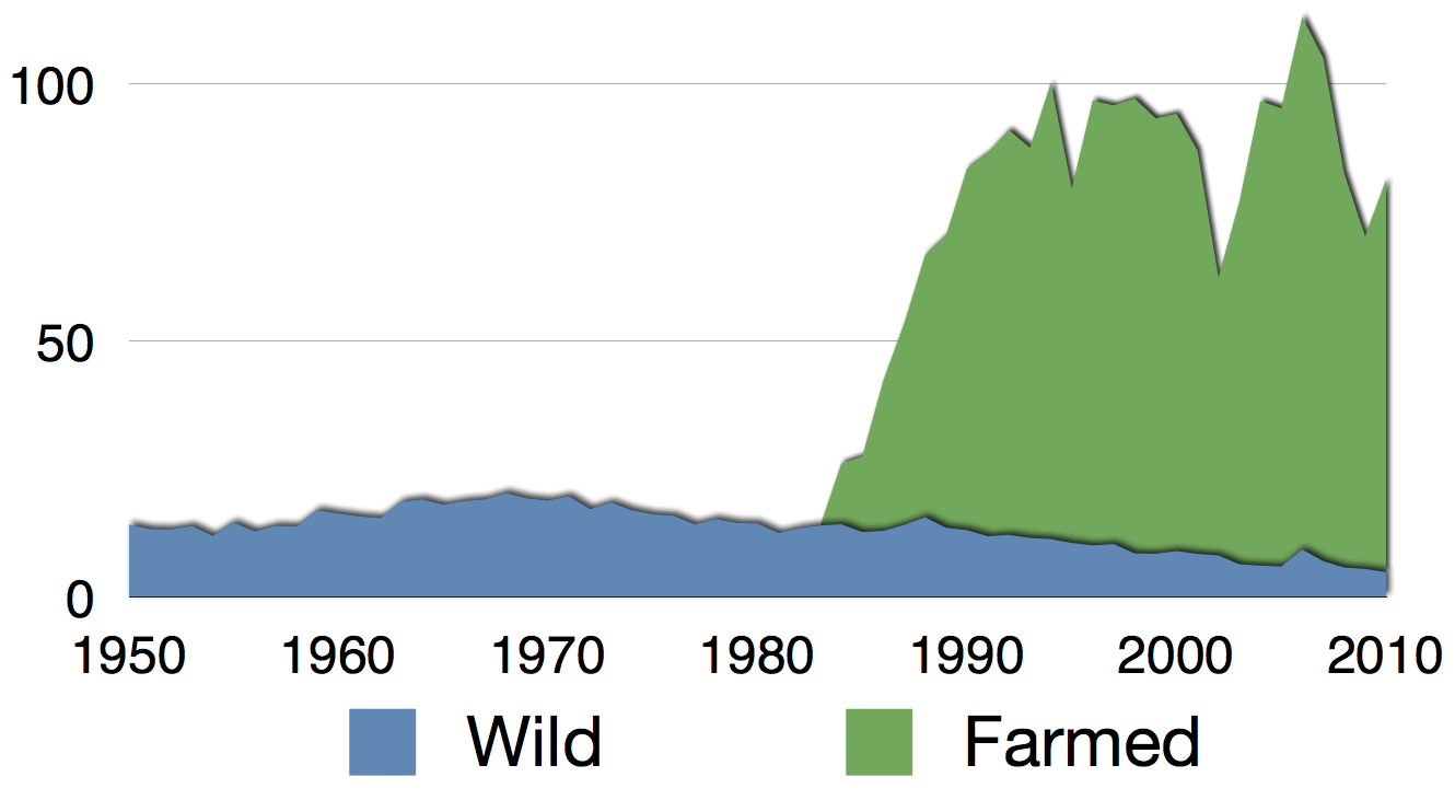 Total production of European eel (Anguilla anguilla), both wild and farmed, from 1950 to 2010. Data source FAO fisheries